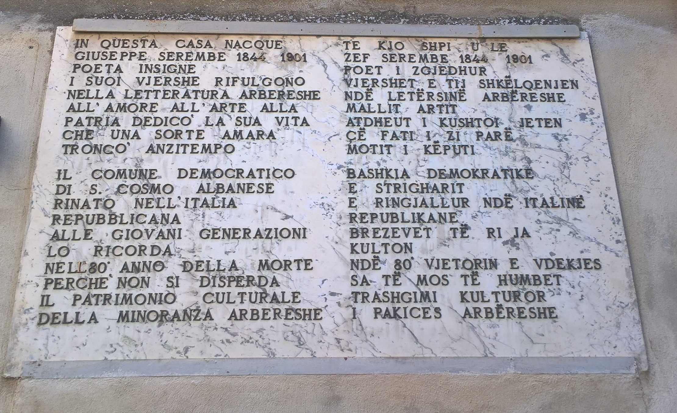 Plaque in Via Giuseppe Serembe 89